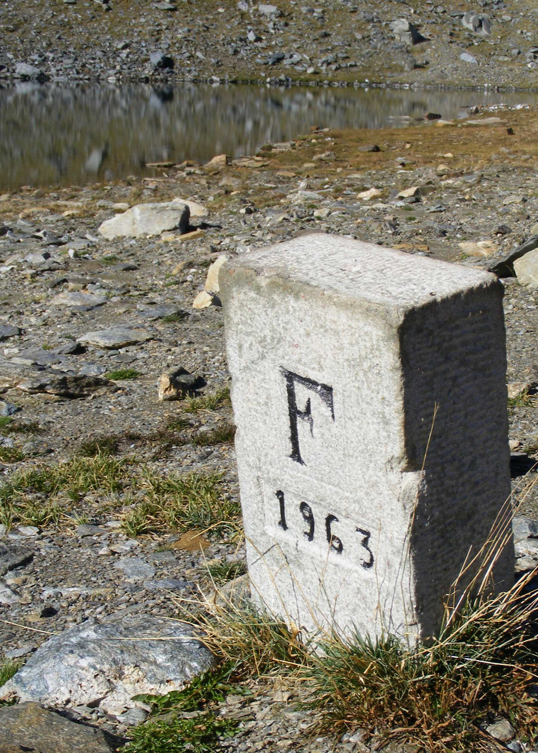 Lake della Vecchia (Cottian Alps): boundary marker